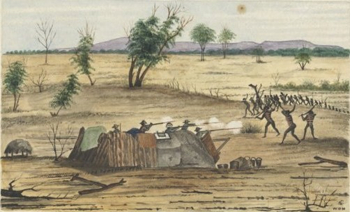 Fighting between Burke and Wills' supply party and Indigenous Australians at Bulla, Queensland during 1861